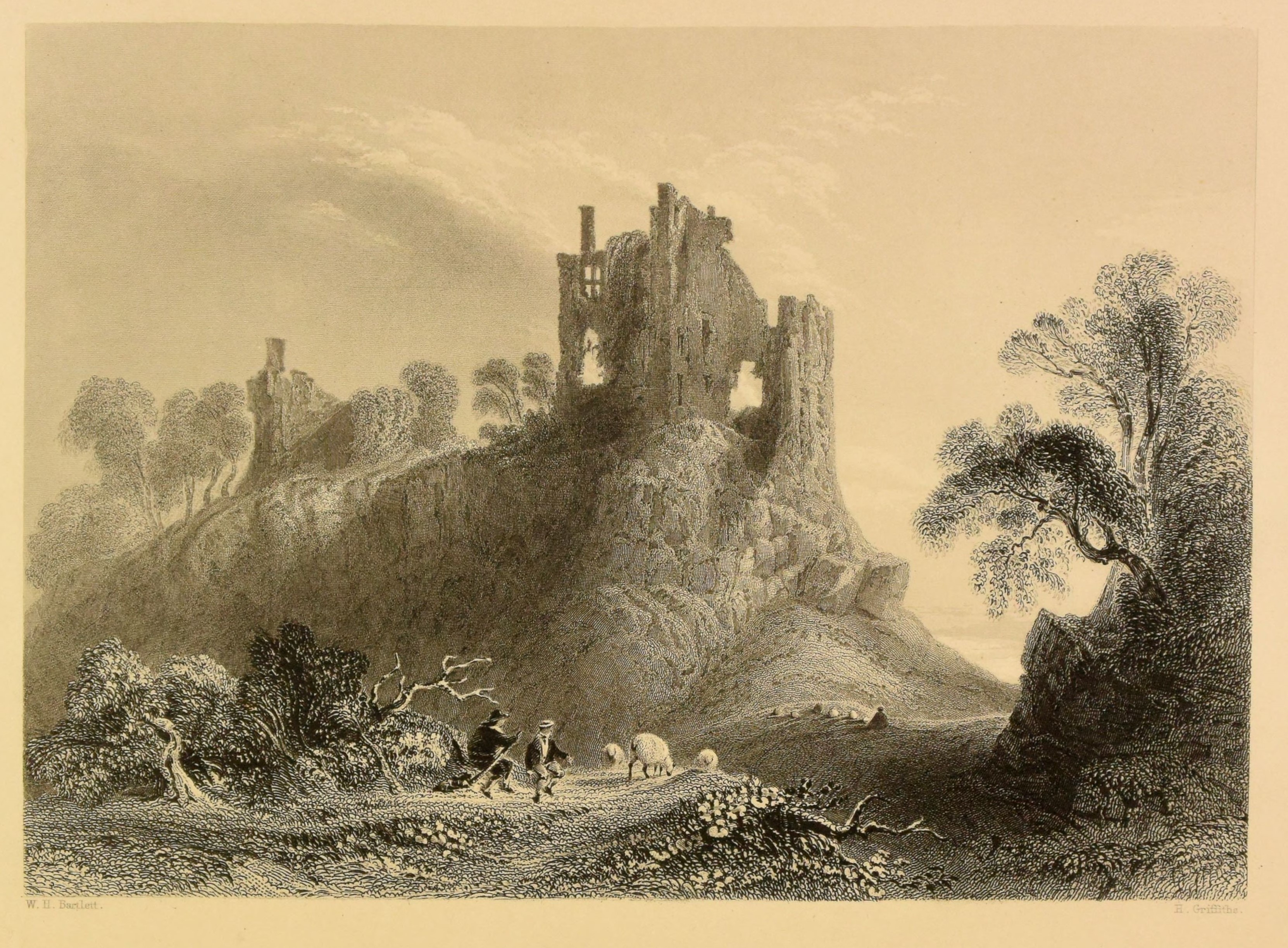 Plate engraving of Carrigogunnel Castle Ireland from vol 2 of The scenery and antiquities of Ireland (Bartlett, William Henry, 1809-1854) In the volume between p.184 and p.185